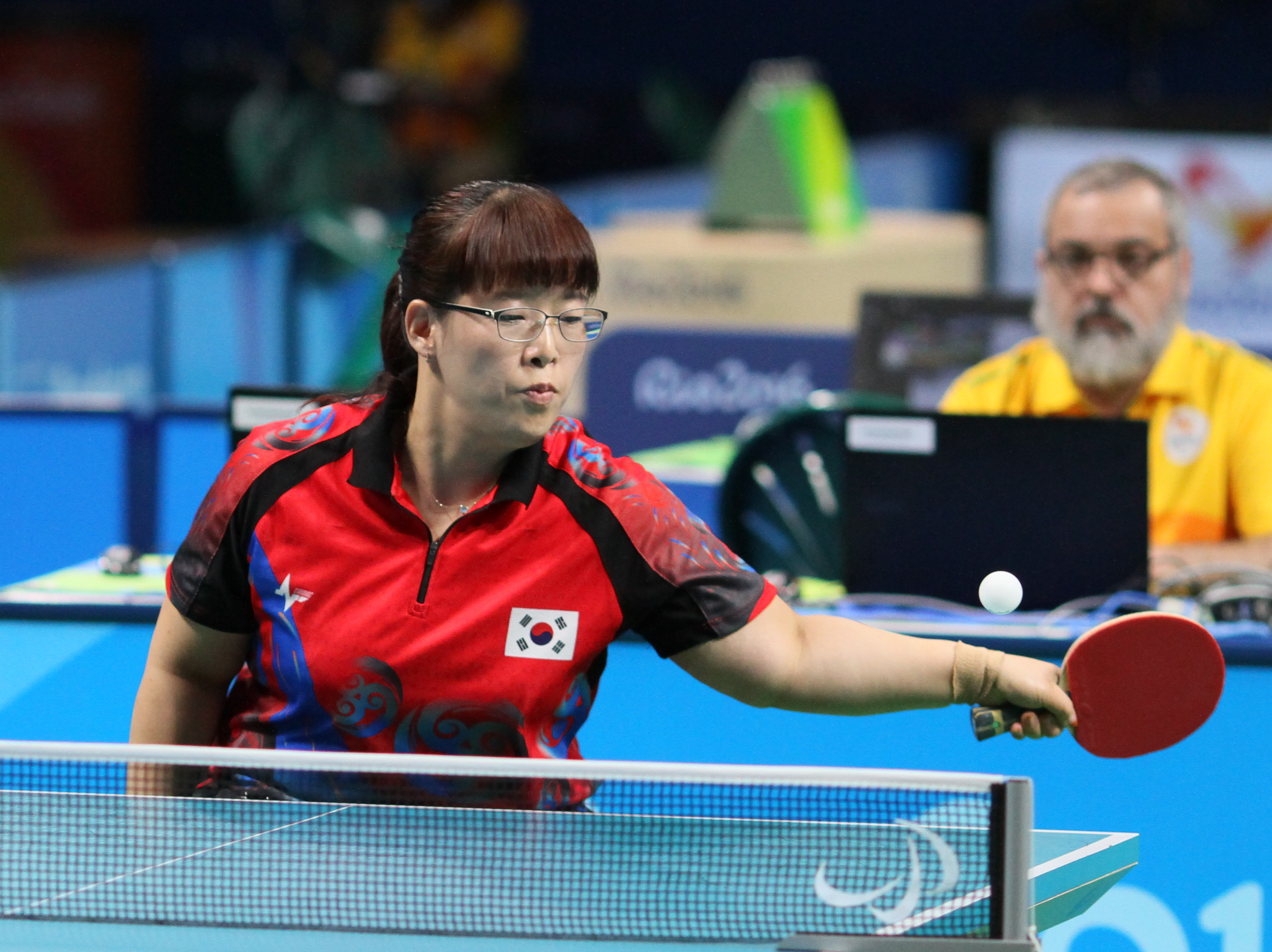 JUNG Young-A (KOR,F5) IMG_5518